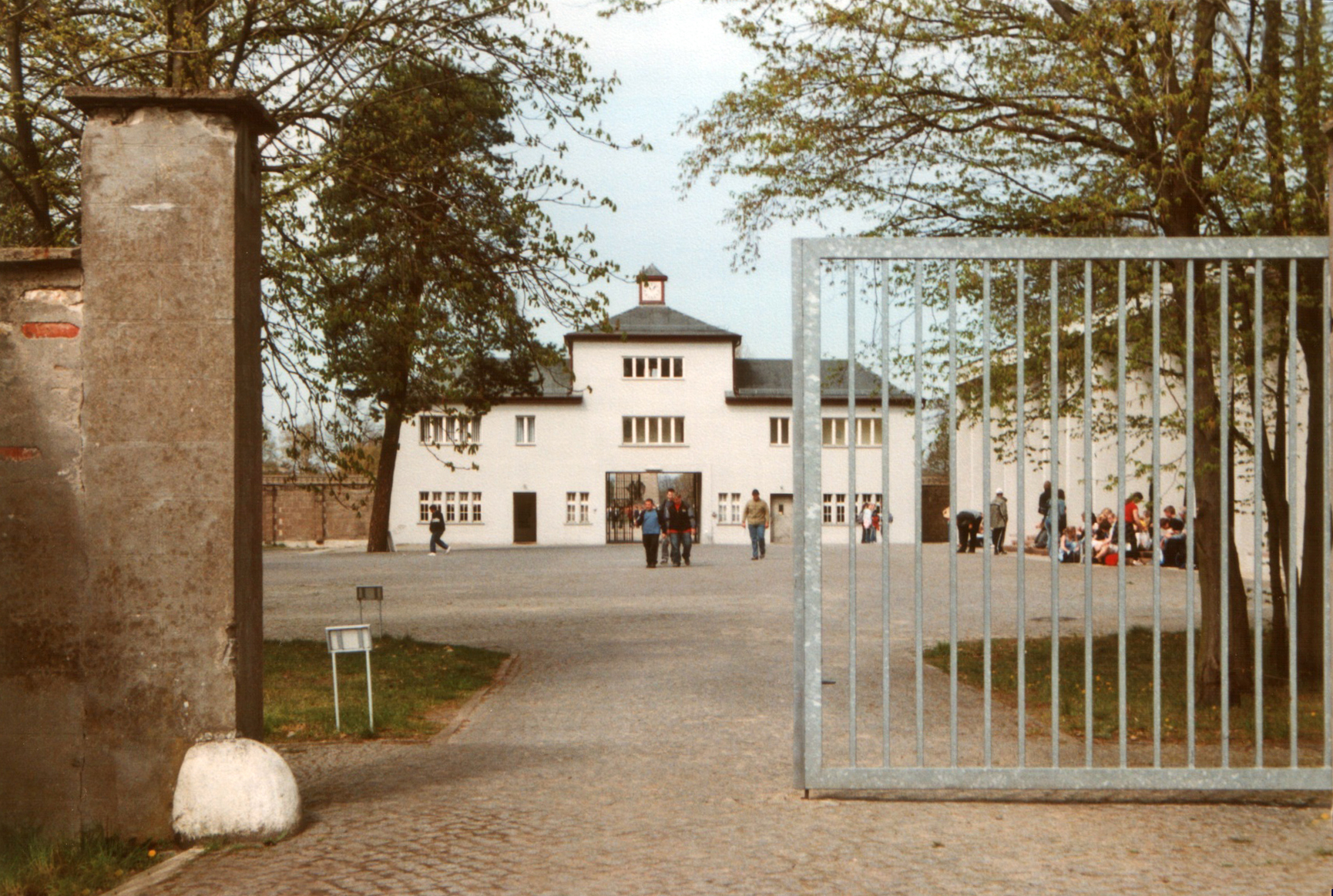 Main entrance to Tower A of the Sachsenhausen concentration camp in April 2004.